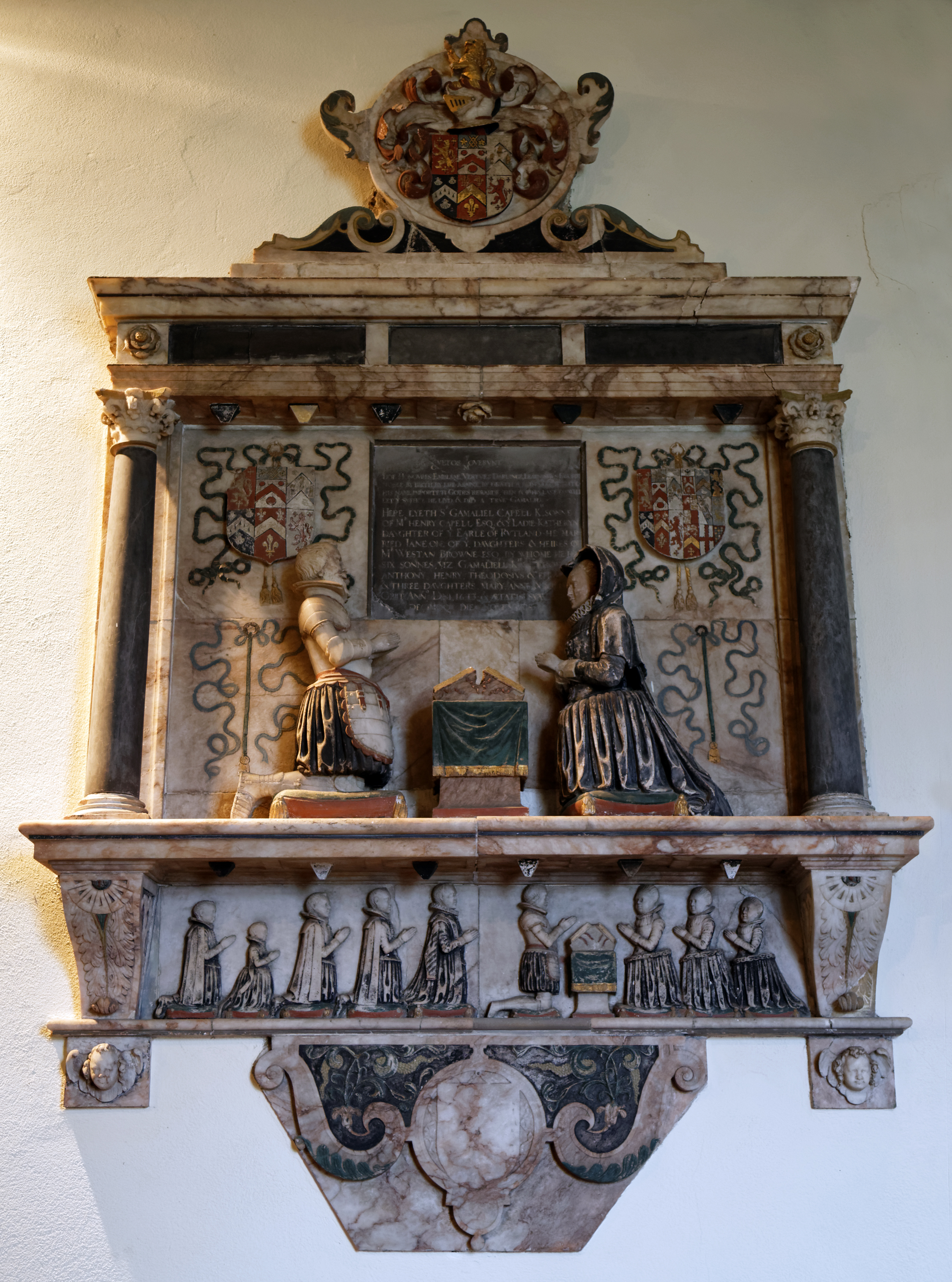 Alabaster and black marble wall monument memorial to Sir Gamaliel Capell (1561-1613), and his wife, Jane Browne (d.1618), on the nave north wall of St Edmund's Church at Abbess Roding in The Rodings, Essex, England. b. 2 Jan. 1561,1 4th s. of Henry Capell I† (d.1588) of Little Hadham, Herts. and Rayne, Essex and Katherine, da. of Thomas Manners, 1st earl of Rutland. educ. Pembroke, Camb. 1577, BA 1580/1; fell. Queens’, Camb. 1582-5, MA 1584. m. 6 Sept. 1584, Jane (d. 22 Aug. 1618), da. and coh. of Wiston Browne of Rookwood Hall and wid. of Edward Wyatt of Tillingham, Essex, 6s. (?2 d.v.p.) 3da.2 kntd. 7 May 1603.3 d. 13 Nov. 1613 (History of Parl. biog). See also Heraldic Visitation of Essex[1] Top shield: Capell (of 6 quarters); Lower left shield: Capell (of 6 quarters); Lower right shield: Capell (of 6 quarters) impaling Browne (of 9 quarters). Arms of Browne: Gules, a chevron between two lion's gambs erased and a bordure argent, in the honour point a fieur-de-lys Or, on a chief also argent an eagle displayed looking to the sinister sable, beaked and legged and anciently crowned gold. Now arms of Brentwood School, founded by Sir Antony Browne and his wife, Joan, who obtained a Royal Charter licencing them to found the School on July 5th, 1558. Camera: Canon EOS 6D with Canon EF 24-105mm F4L IS USM lens.Software: large RAW file lens-corrected, optimized and downsized with DxO OpticsPro 10 Elite, Viewpoint 2, and Adobe Photoshop CS2.